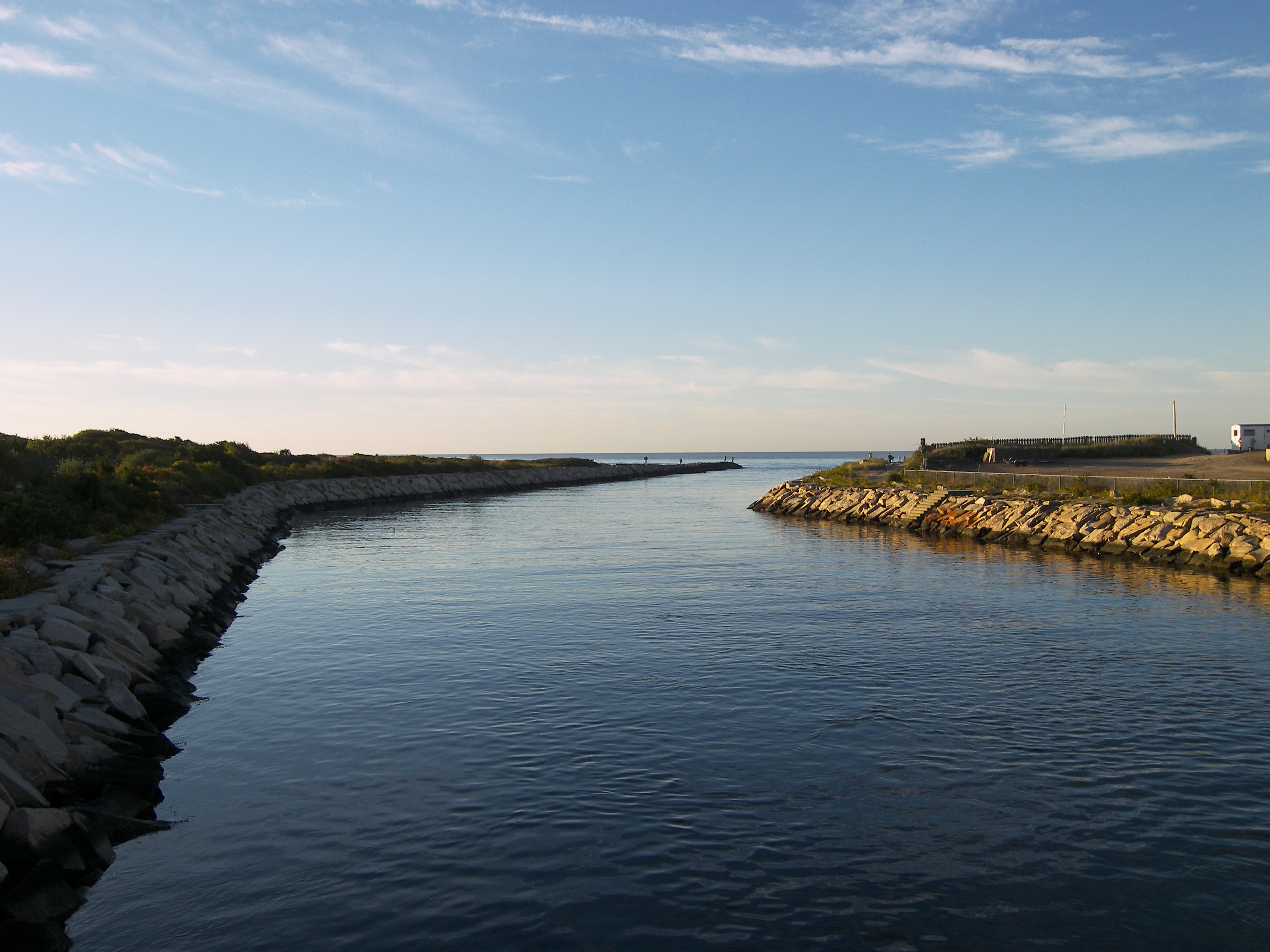 A picture of the Weekapaug Breachway in Rhode Island.